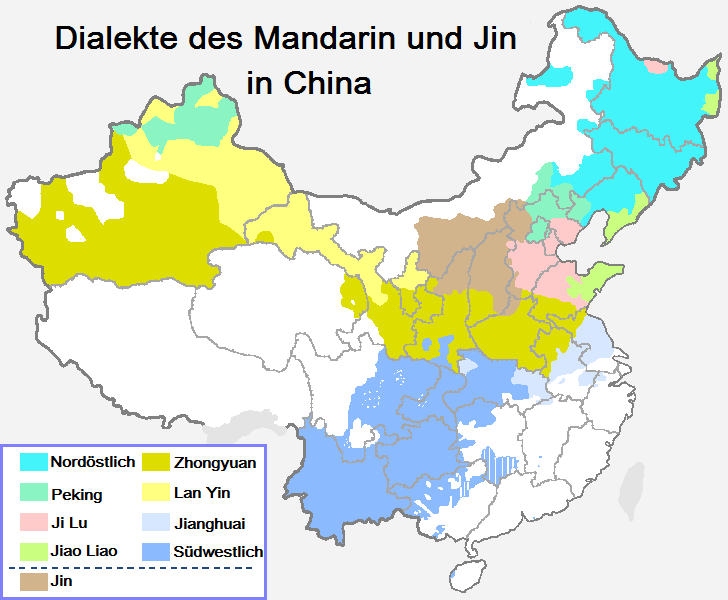 German version of the file File:Mandarin subgroups and Jin group.png